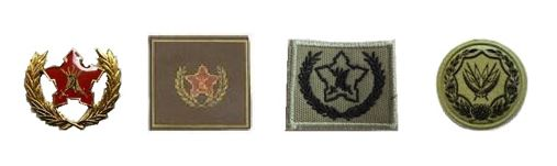 SADF Commando System 5 Year voluntary service award